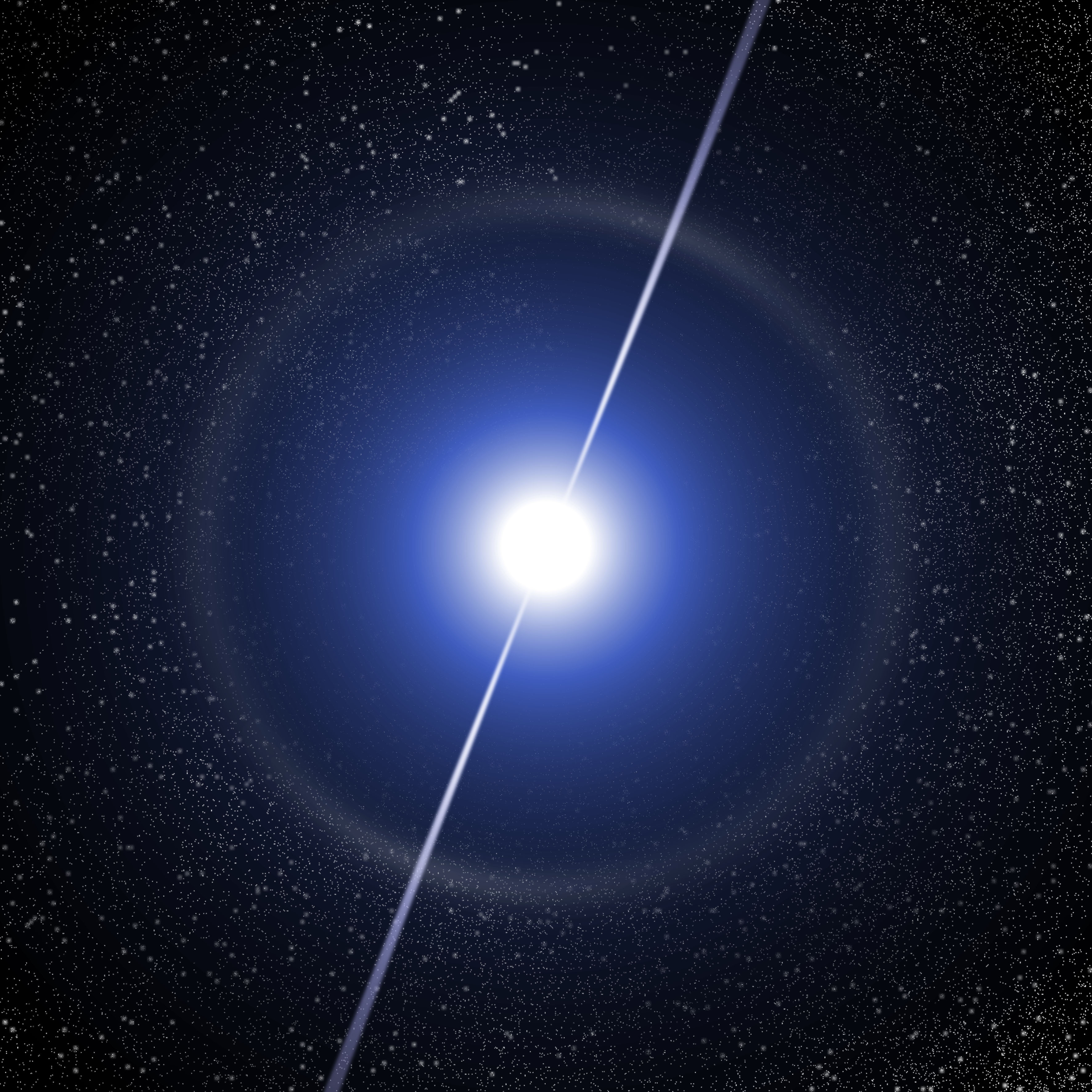 A pulsar is a fast rotating neutron star. The symmetry axis of its magnetic field deviates from the axis of rotation, which is why it emits synchrotron radiation along the dipole axis.